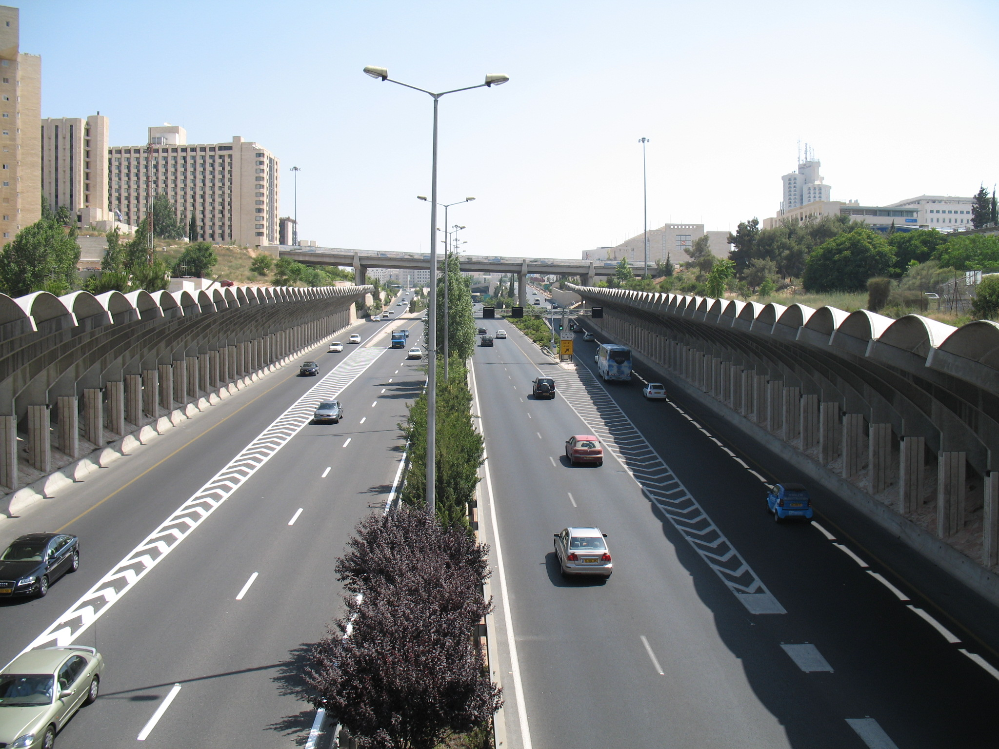 Israel Highway 50 (Begin Boulevard/Sderot Menachem Begin) (formerly Route 404) northward approaching Kiryat Moshe Interchange and overpass of Sderot Wolfson, Jerusalem. At the left, "Ramada Jerusalem" Hotel. On the right, top of "Crown Plaza Jerusalem" Hotel over the building of "Israel Electric Corporation" (abbreviation: IEC Hebrew: חברת החשמל לישראל). view from the gateway.